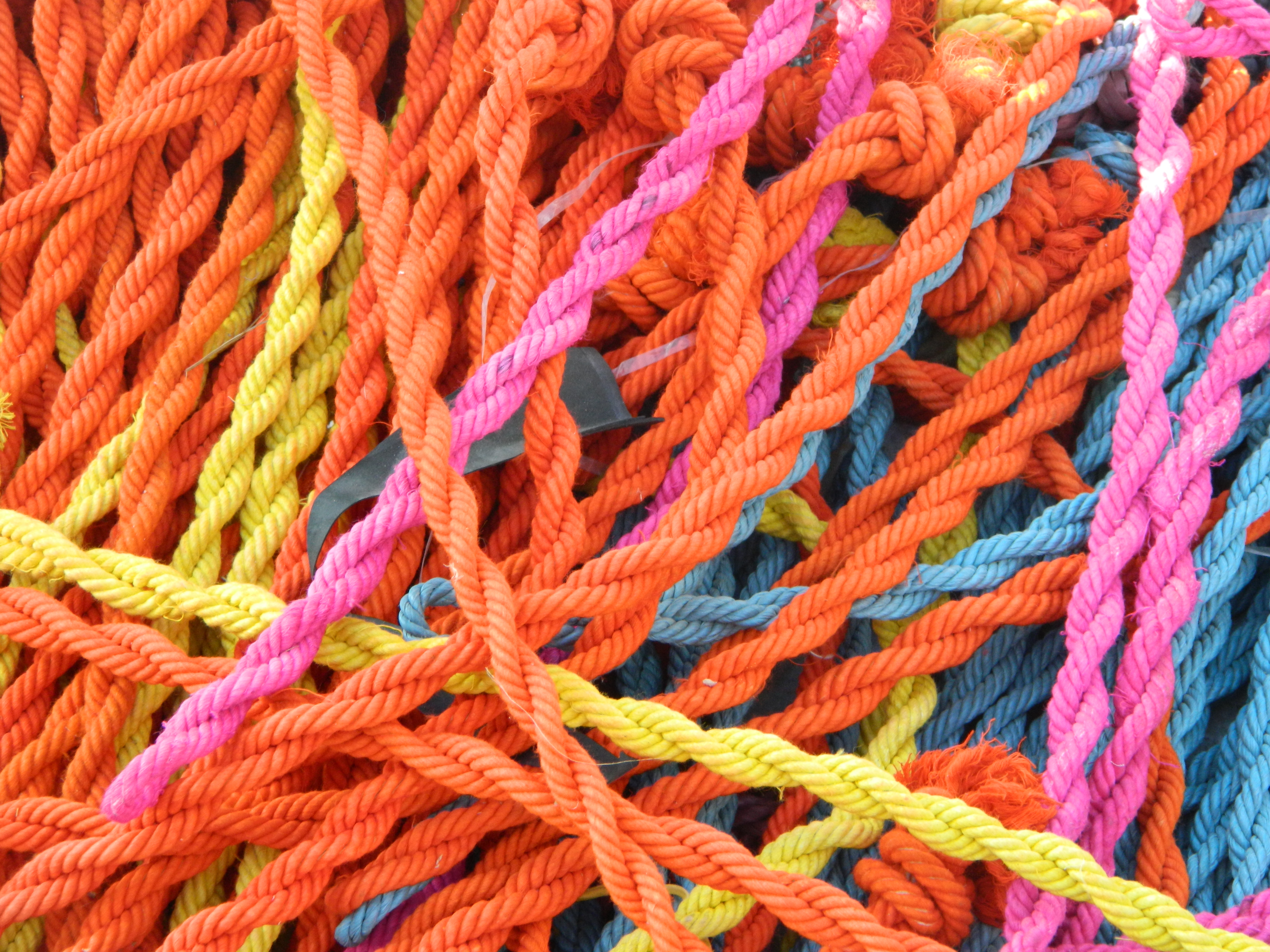 A colour ropes